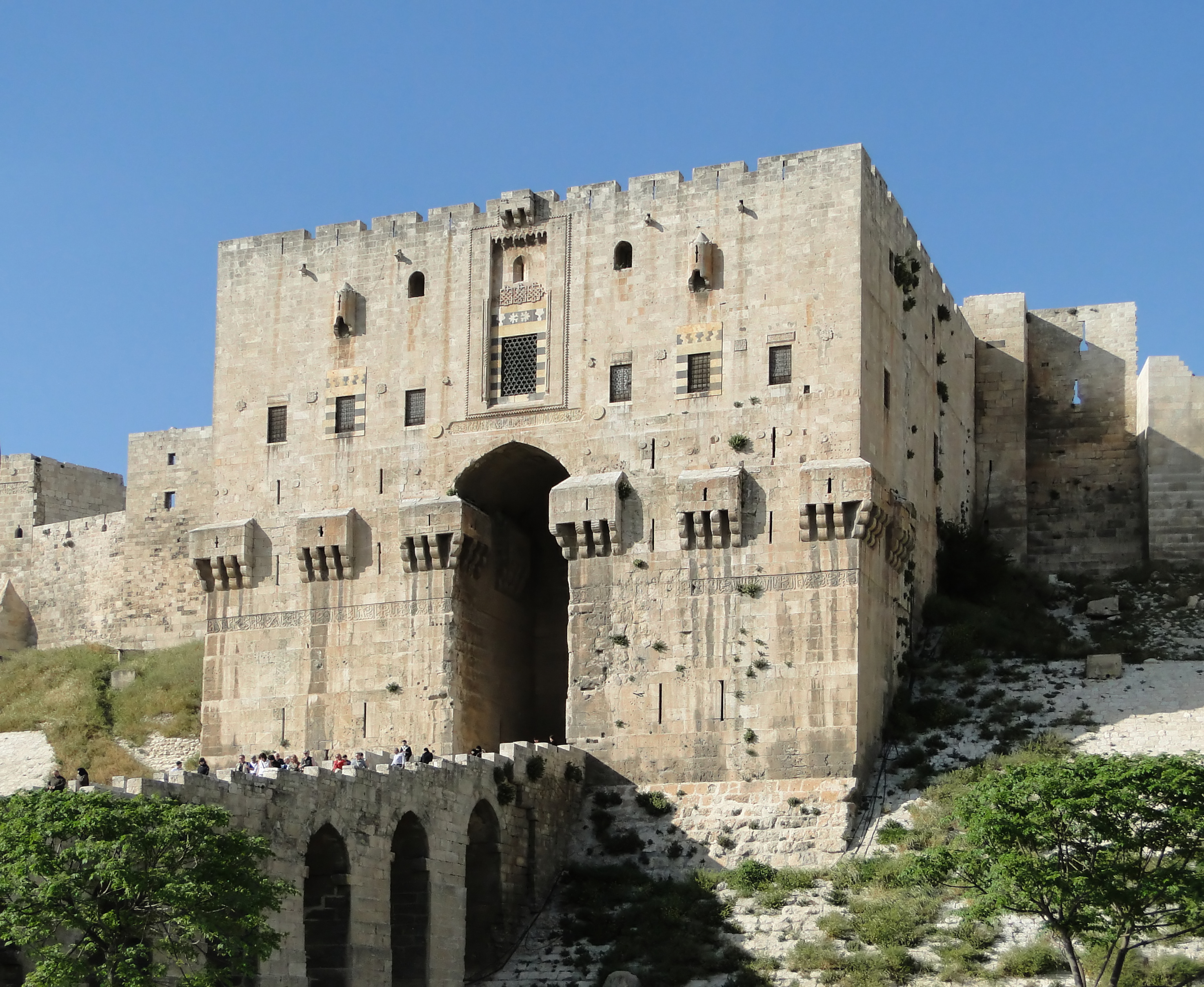 Inner gate of Aleppo Citadel, Syria